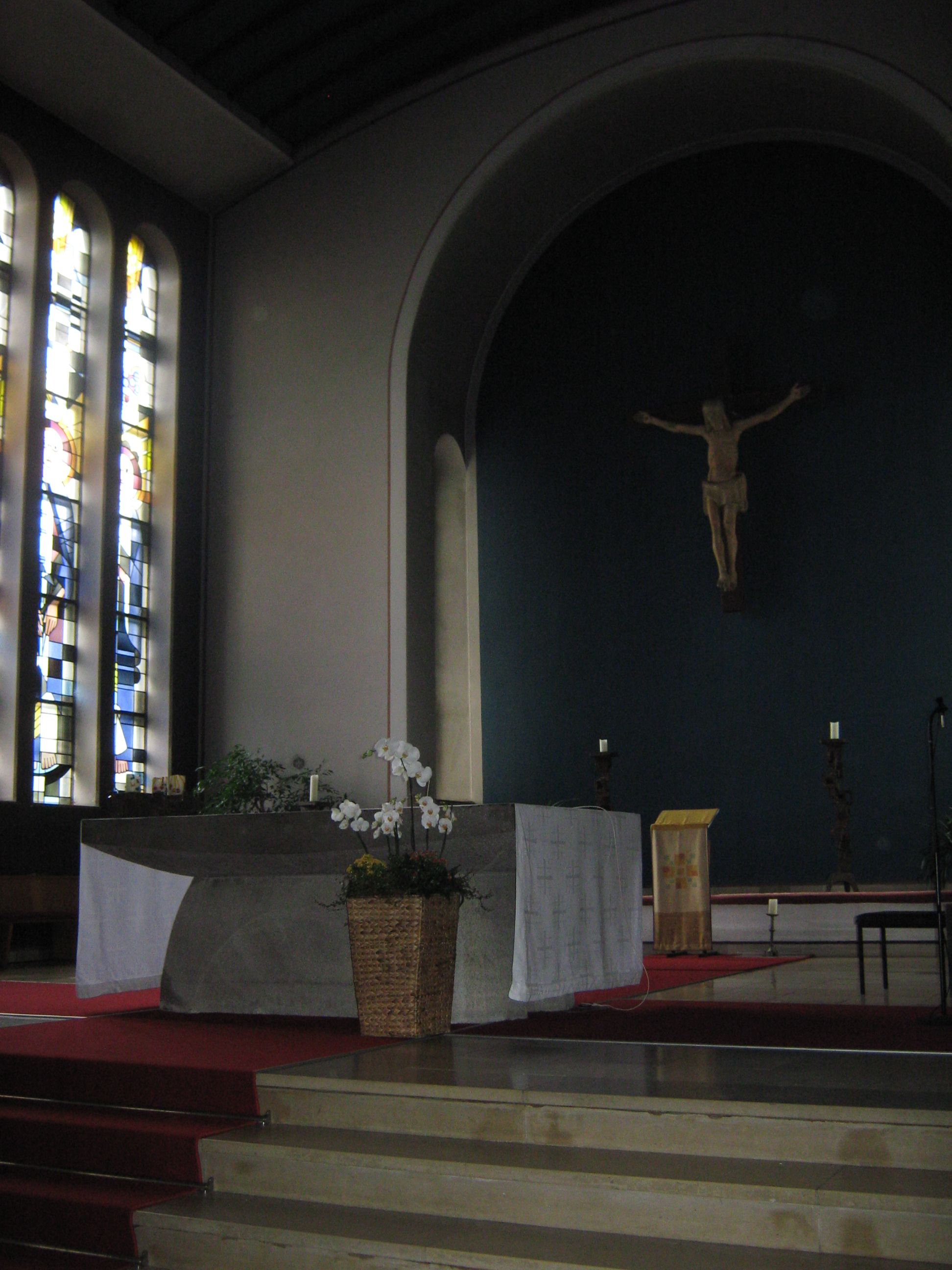 Apse of the church Maria Königin Lüdenscheid in Germany